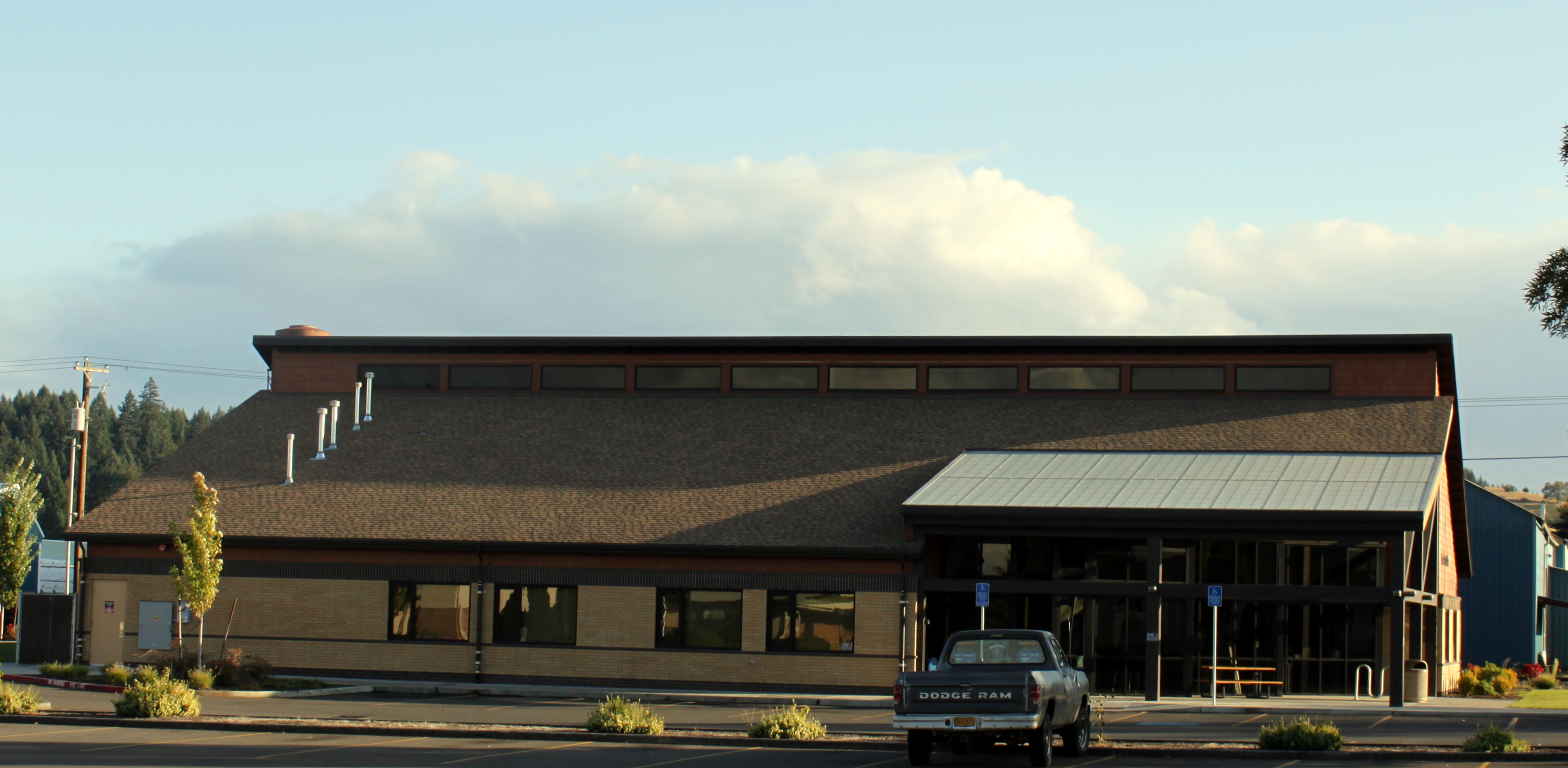 Wing of Chemeketa Community Collegein Dallas, Oregon.